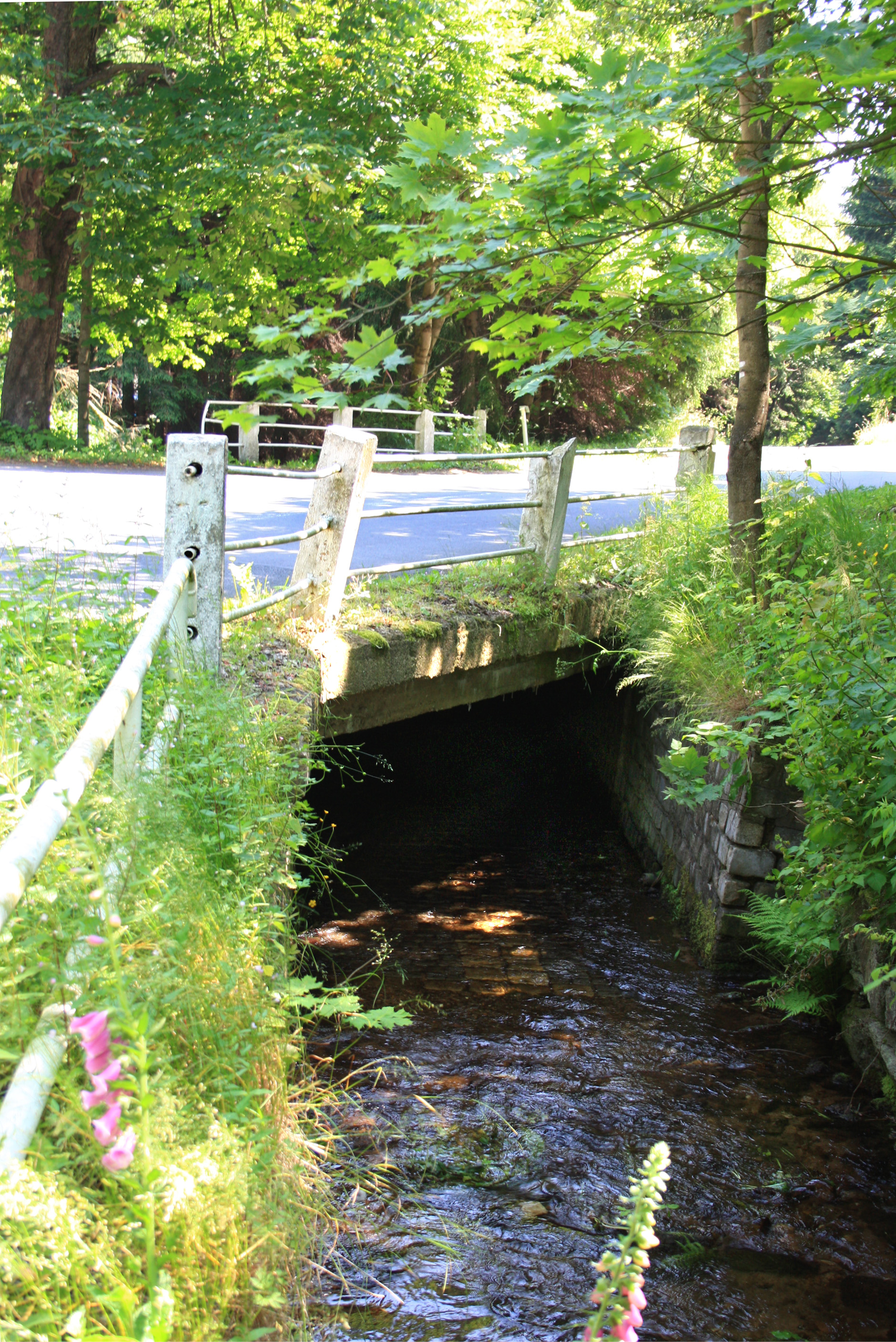 Bílina river at Mezihoří village, part of Blatno, Czech Republic